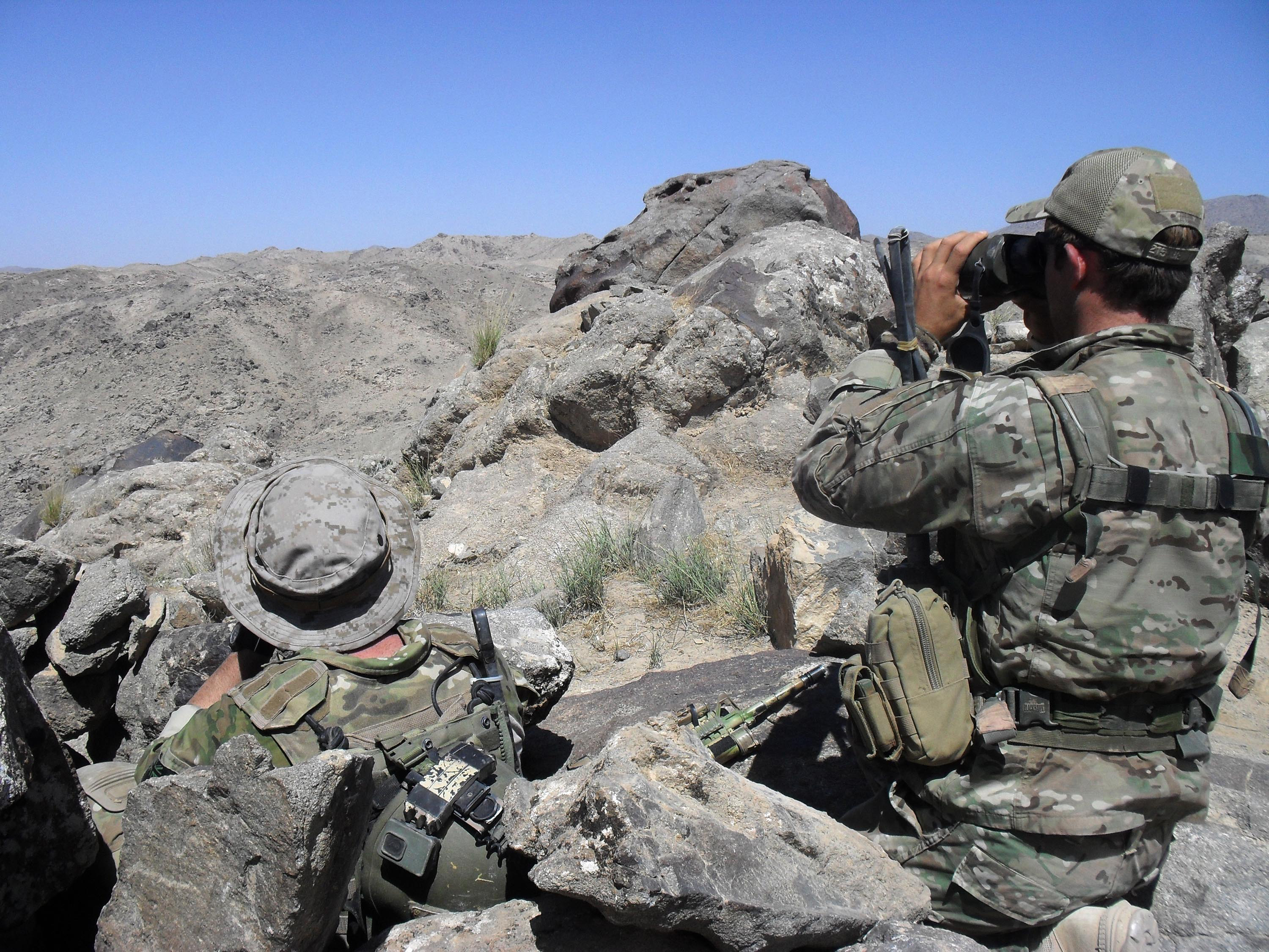 An Australian Special Operations Task Group soldiers observing the valley during the Shah Wali Kot Offensive. Afghan National Security Forces (ANSF) partnered with Australian Special Forces from the Special Operations Task Group conducted a deliberate operation to clear a Taliban insurgent stronghold in the Shah Wali Kot region of northern Kandahar province.The Shah Wali Kot Offensive comprised synchronised and deliberate clearance operations involving Australian Commandos combined with a number of surgical helicopter-born assaults from Special Air Service (SAS) troops on key targets.